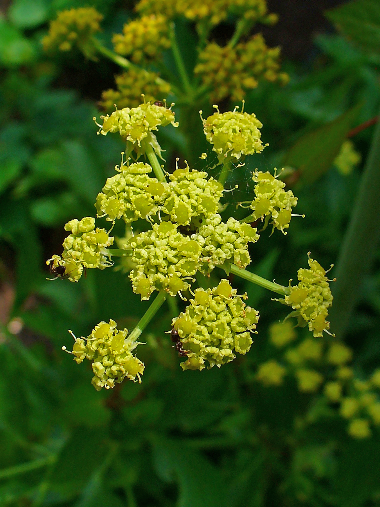 Levisticum officinale, Apiaceae, Lovage, inflorescence; Karlsruhe, Germany. The fresh, underground parts are used in homeopathy as remedy: Arachis hypogaea (Ara-h.)